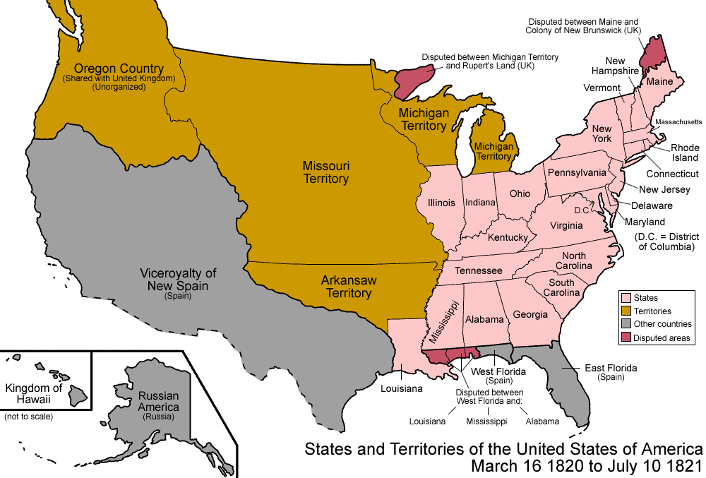 Map of the states and territories of the United States as it was from 1820 to July 1821. On March 16 1820, the northern district of Massachusetts was admitted as the state of Maine. On July 10 1821, the Treaty of 1819 enters in to effect, settling all disputes with the Spanish colonies; the borders were defined in the west, and both Floridas were ceded to the United States, having been purchased as part of the treaty.